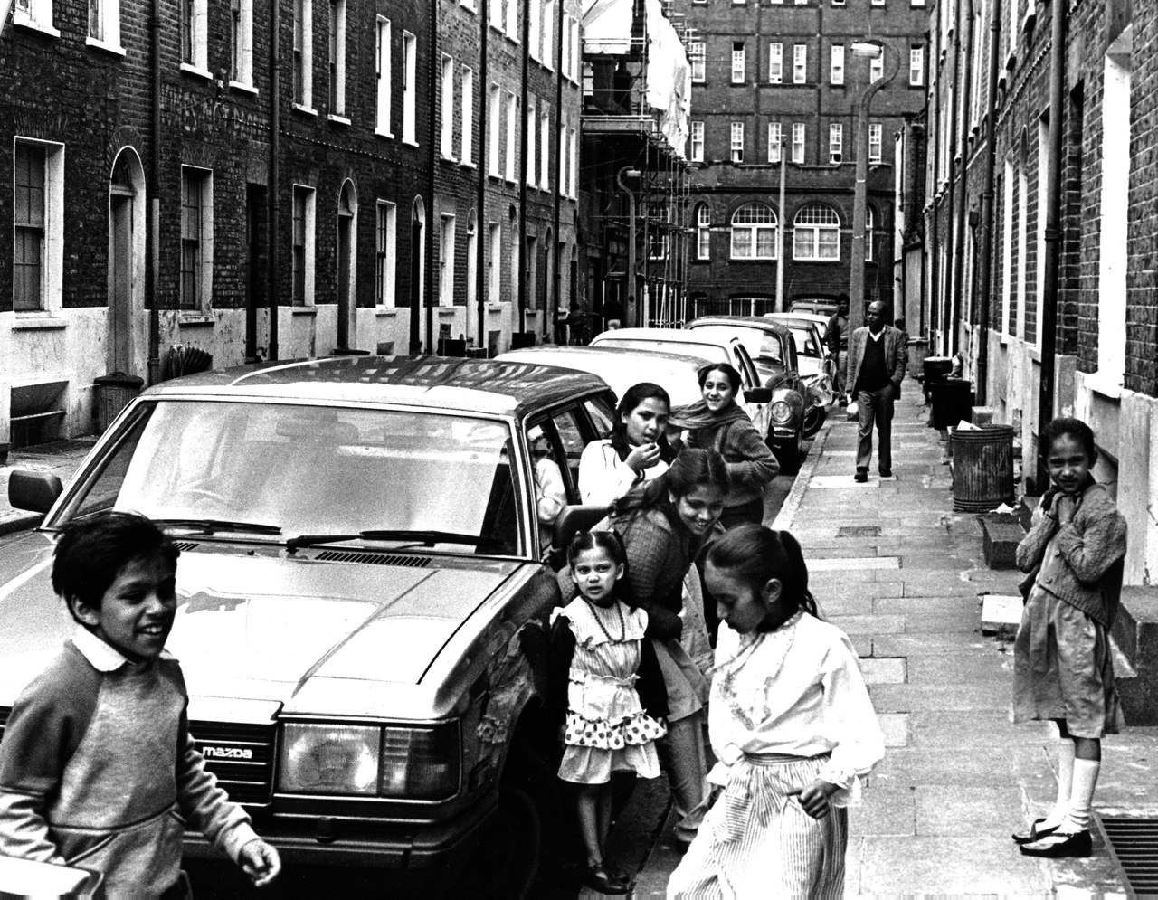 I lived in this street in the late 80's in Whitechapel in the midst of a thriving Bangladeshi community, we were all part of a housing co-op. This street was subsequently regenerated, without losing its character. 1986.